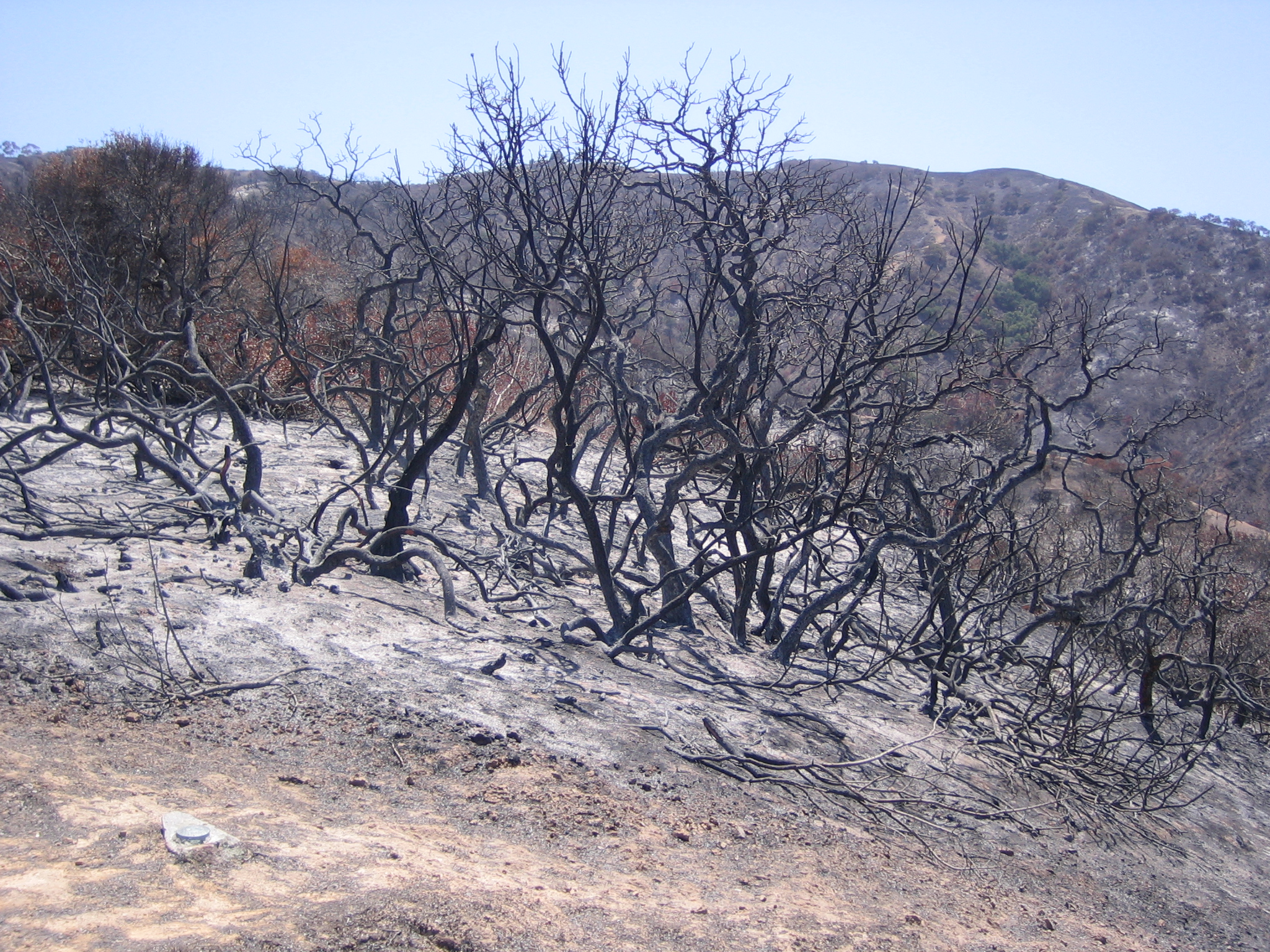 A bush that was burned during the May 2007 wildfires on Santa Catalina Island